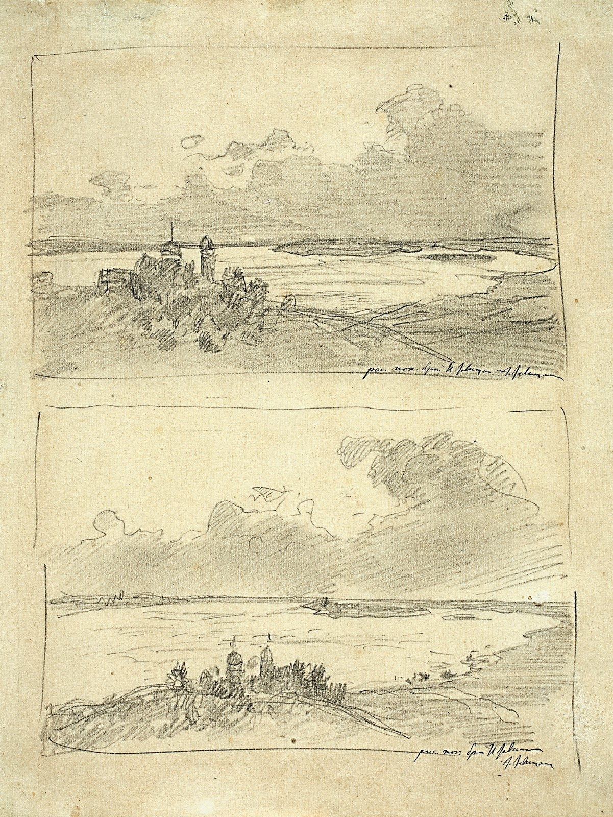 Before a thunderstorm (pencil studies by Isaac Levitan for his painting "Above the eternal piece")